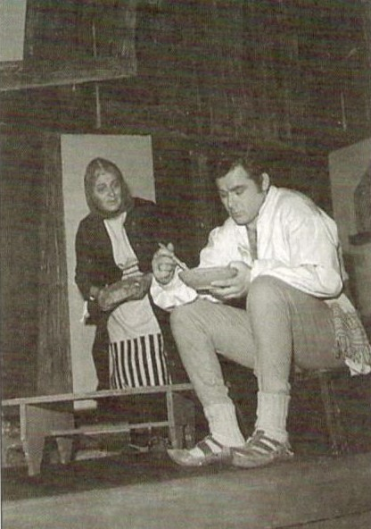 Scene from the drama